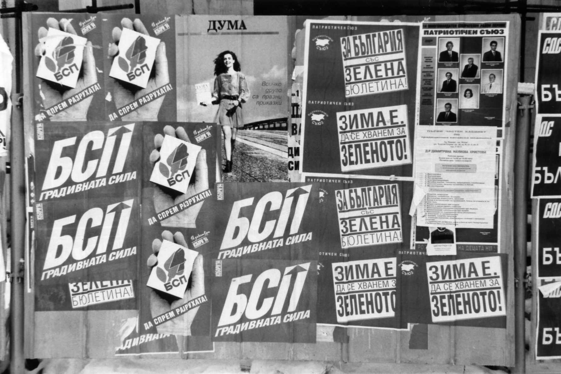 Election Time, Bulgaria. Jan 1995